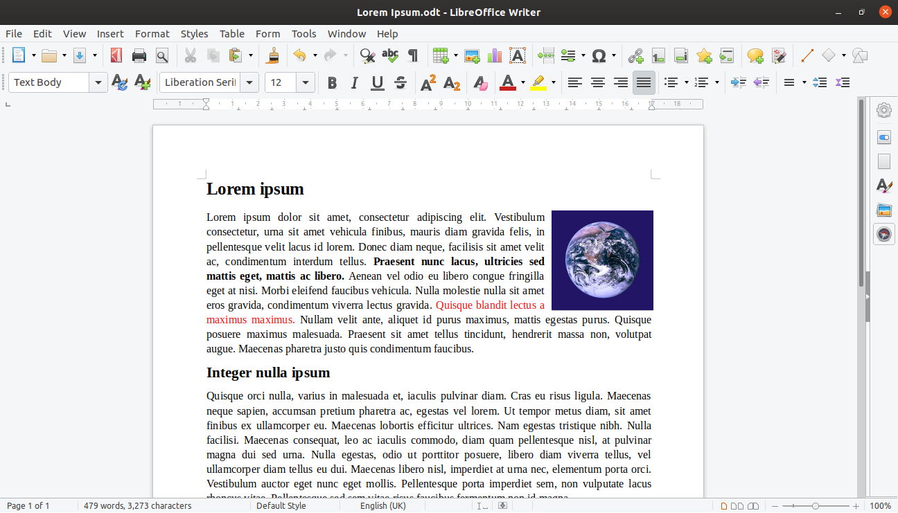 LibreOffice Writer 6.3 standart interface on Ubuntu Linux.